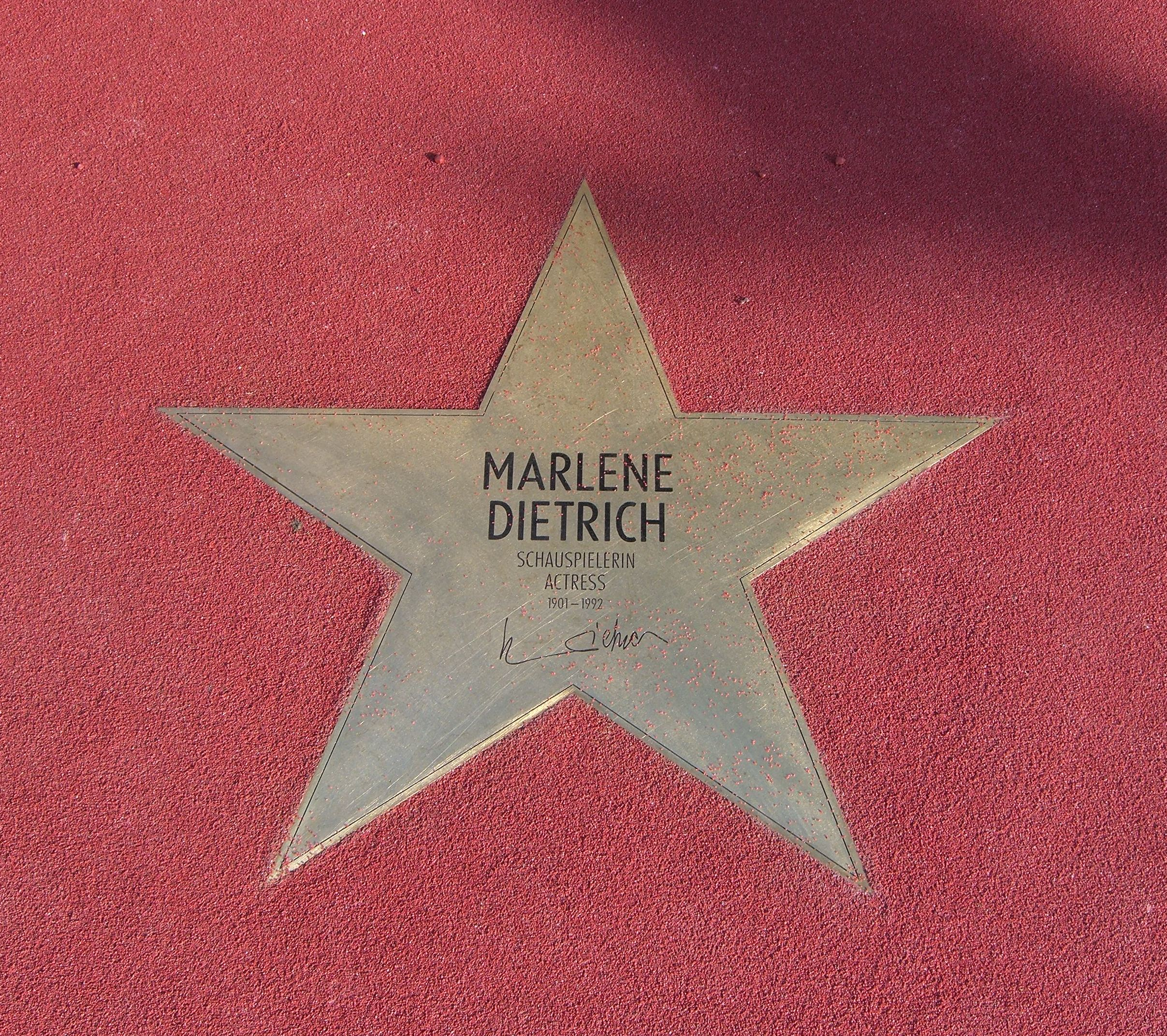 Star of Marlene Dietrich at "Boulevard der Stars" in Berlin.